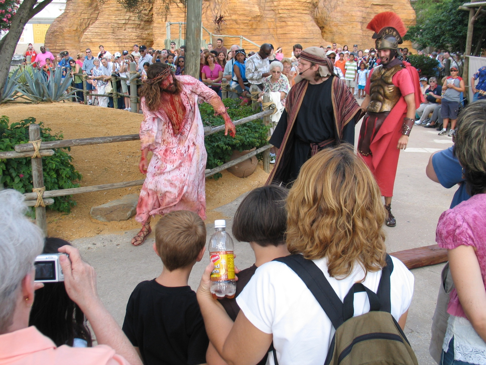 2007 General Council